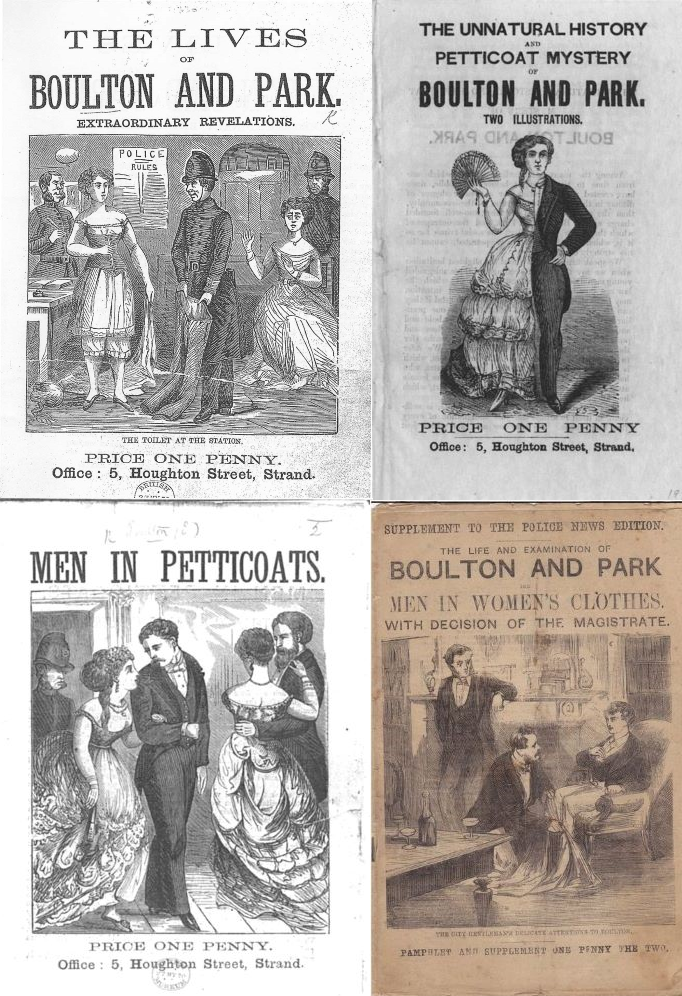 Penny dreadful covers about Boulton and Park